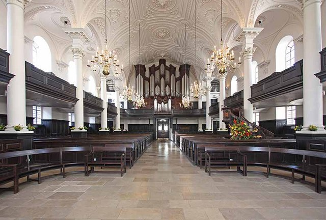 St Martin in the Fields, Trafalgar Square - West end, near to City of London, Great Britain.